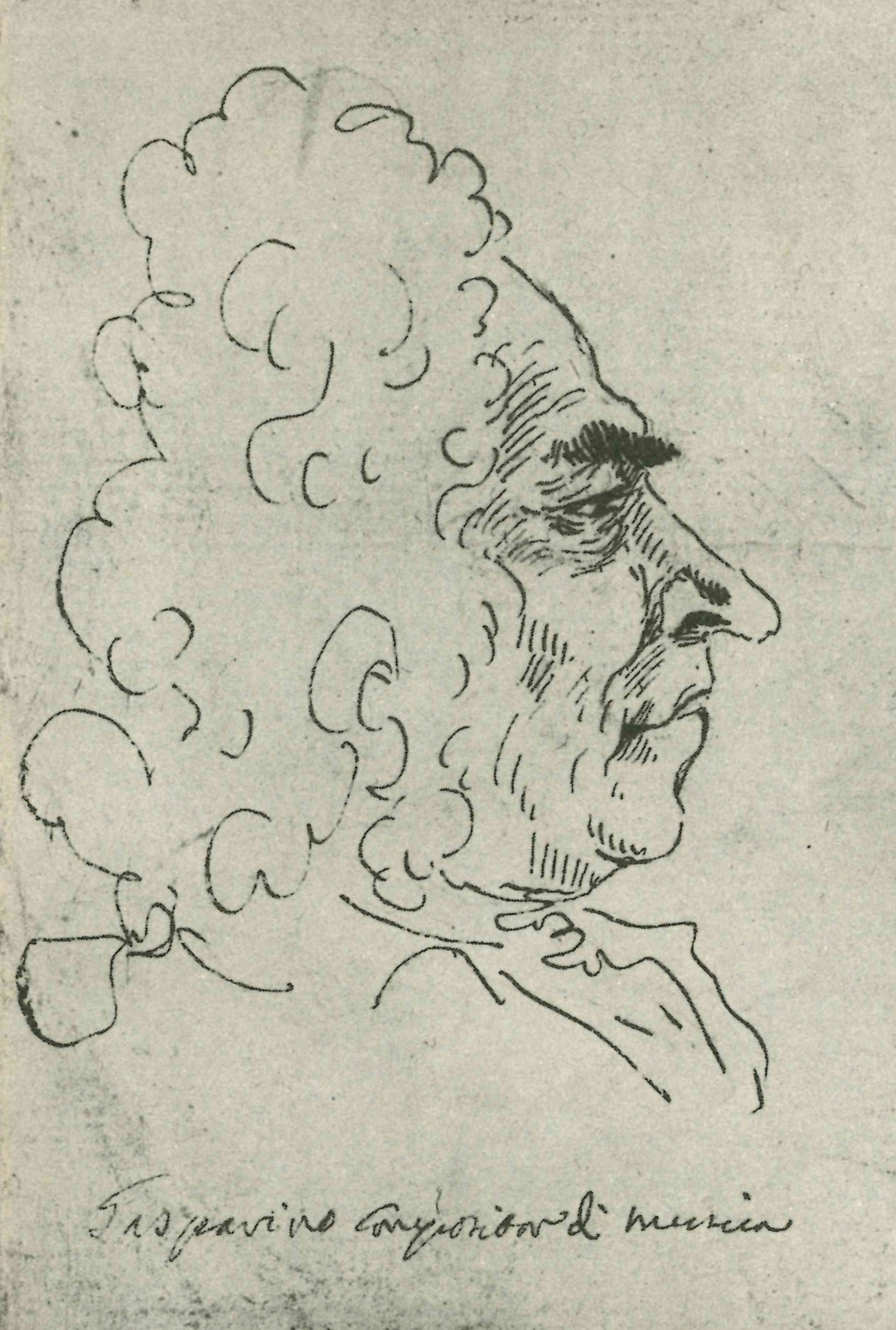 Francesco Gasparini (1661–1727), Italian composer Caricature by Pier Leone Ghezzi (1674–1755) Preserved at Biblioteca Vaticana in Rome (source: Codici Ottoboniani latini 3113, fol. 8)